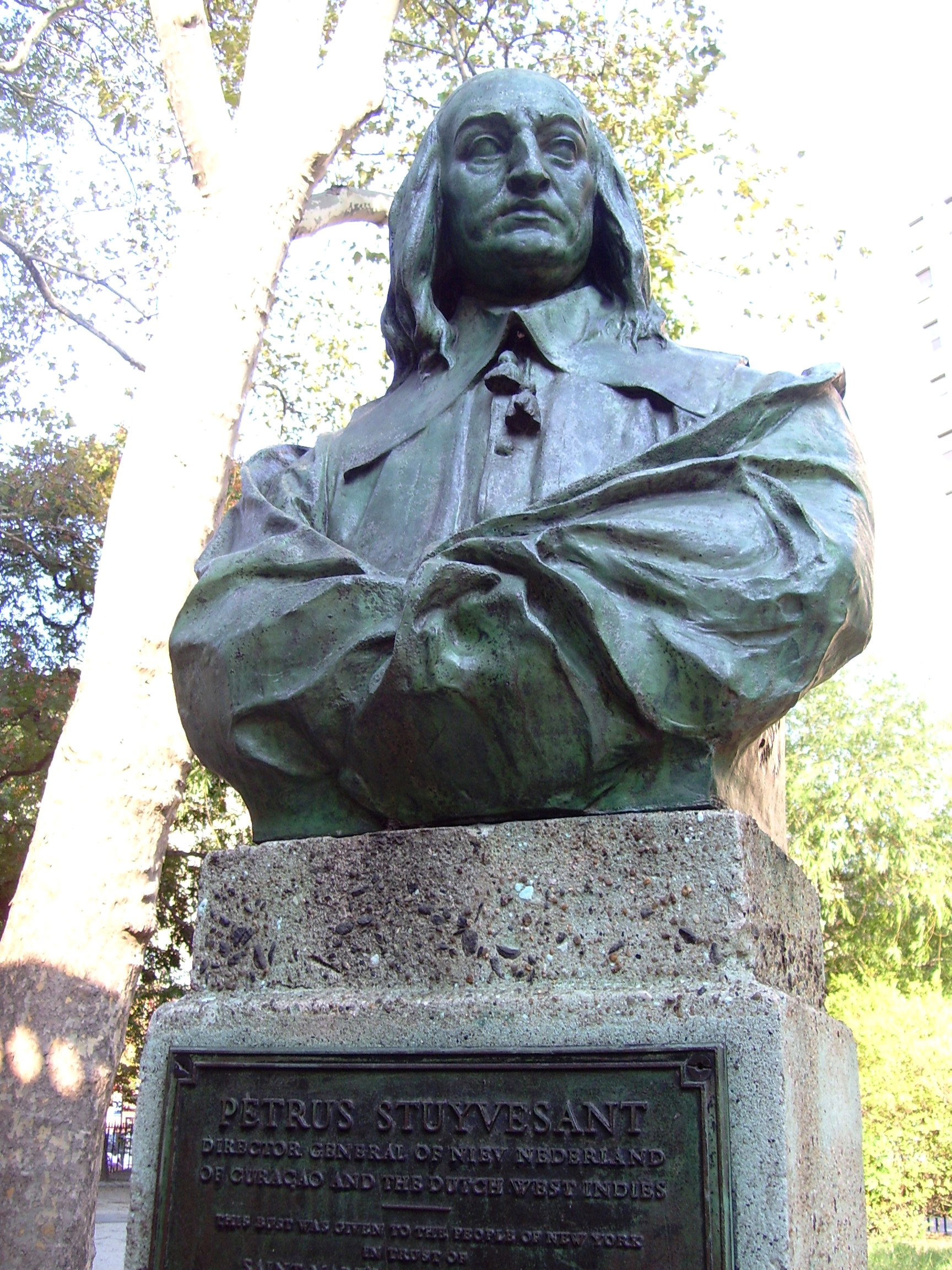 Bust of Petrus Stuyvesant (Peter Stuyvesant) in the East Grounds of St. Mark's Church in-the-Bowery in the East Village, Manhattan, New York City. The statue by Dutch sculptor Toon Dupuis was presented by Queen Wilhelmina of Holland and the Dutch Government on December 5, 1915.[1]